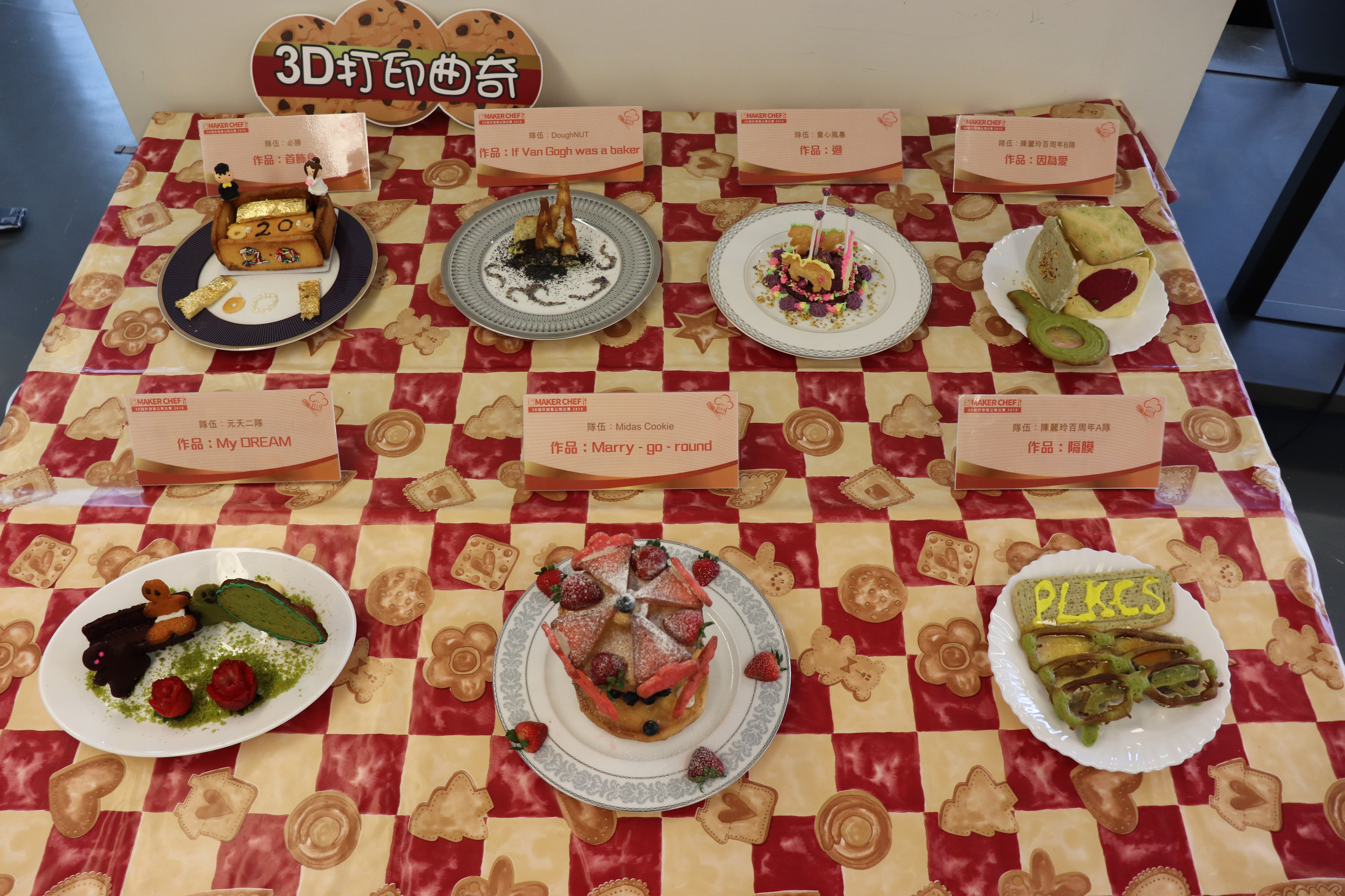 3d printed cookies